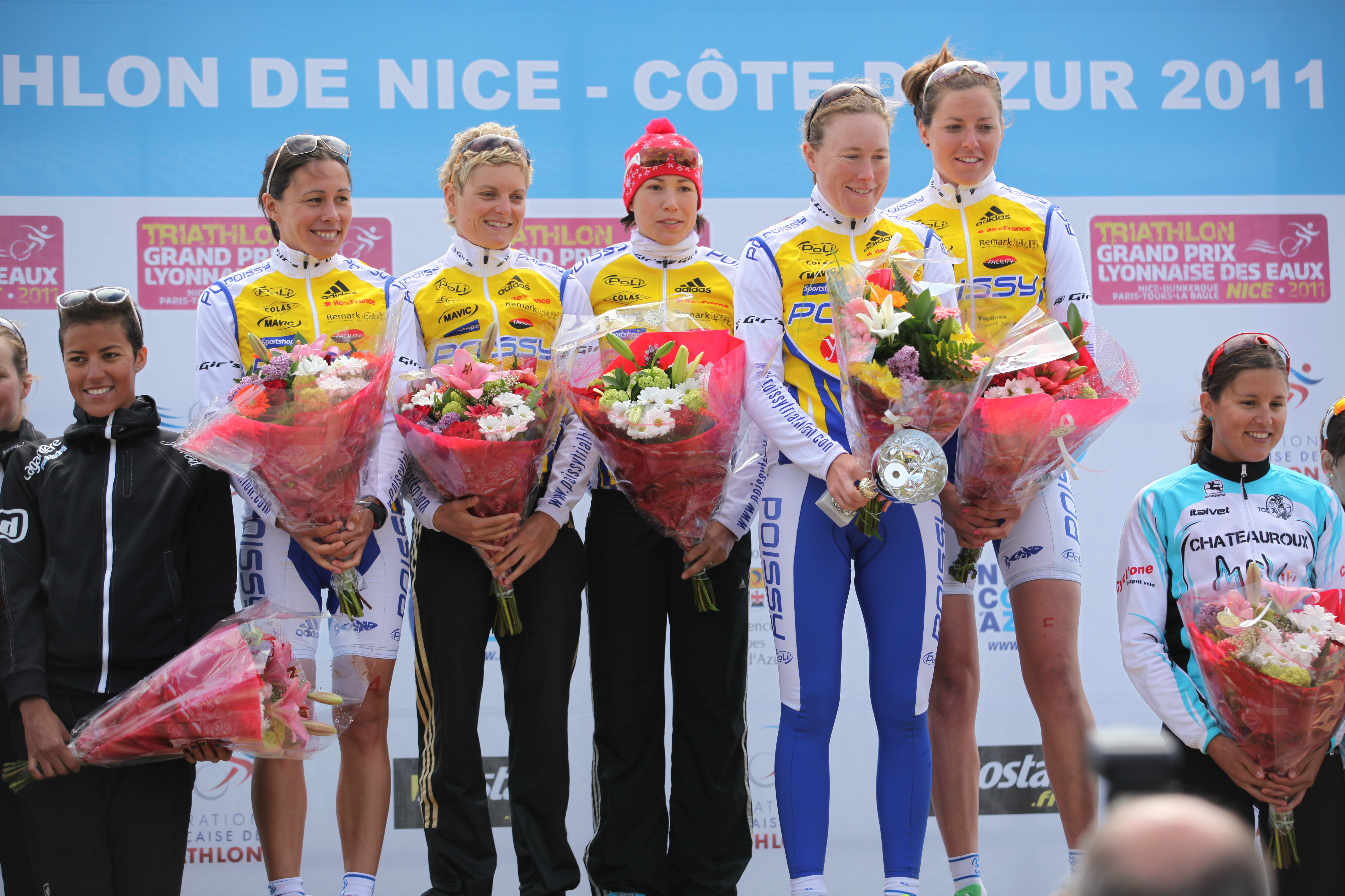 The club Poissy Triathlon winning the opening triathlon of the French Club Championship Series / Grand Prix de Triathlon (called Lyonnaise des Eaux) in Nice: Andrea Hewitt, Carole Peon, Kathrin Muller, Jessica Harrison, and Berengere Abraham.